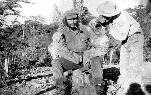 Ernesto Che Guevara in Bolivia in 1967.